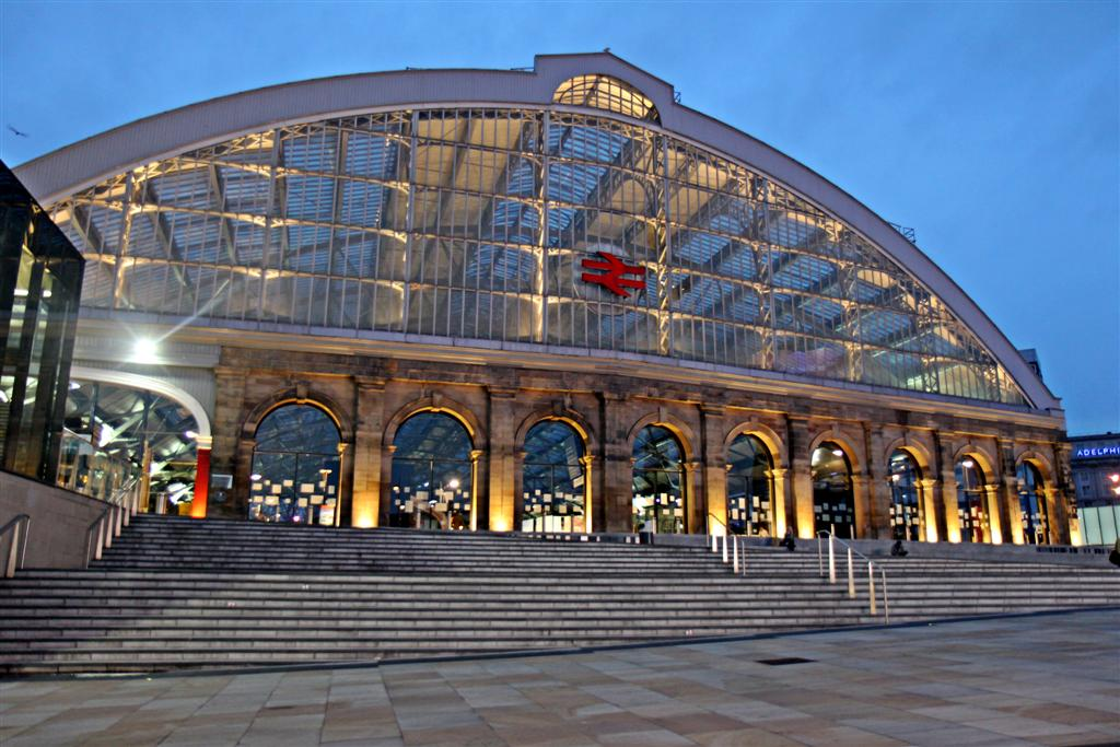 Liverpool Lime Street Railway Station